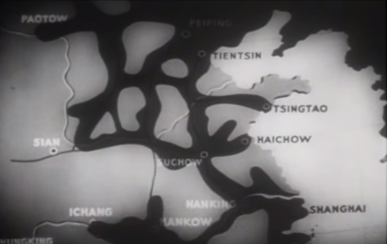 A map of actual Japanese zones of control during the Second Sino-Japanese War (the Chinese theater of World War II). Guide to period names Paotow = Baotou Peiping = Beijing Tientsin = Tianjin Sian = Xi'an Suchow = Xuzhou Haichow = Haizhou = Lianyugang Tsingtao = Qingdao Chungking = Chongqing Ichang = Yichang Hankow = Hankou = Wuhan Nanking = Nanjing Shanghai